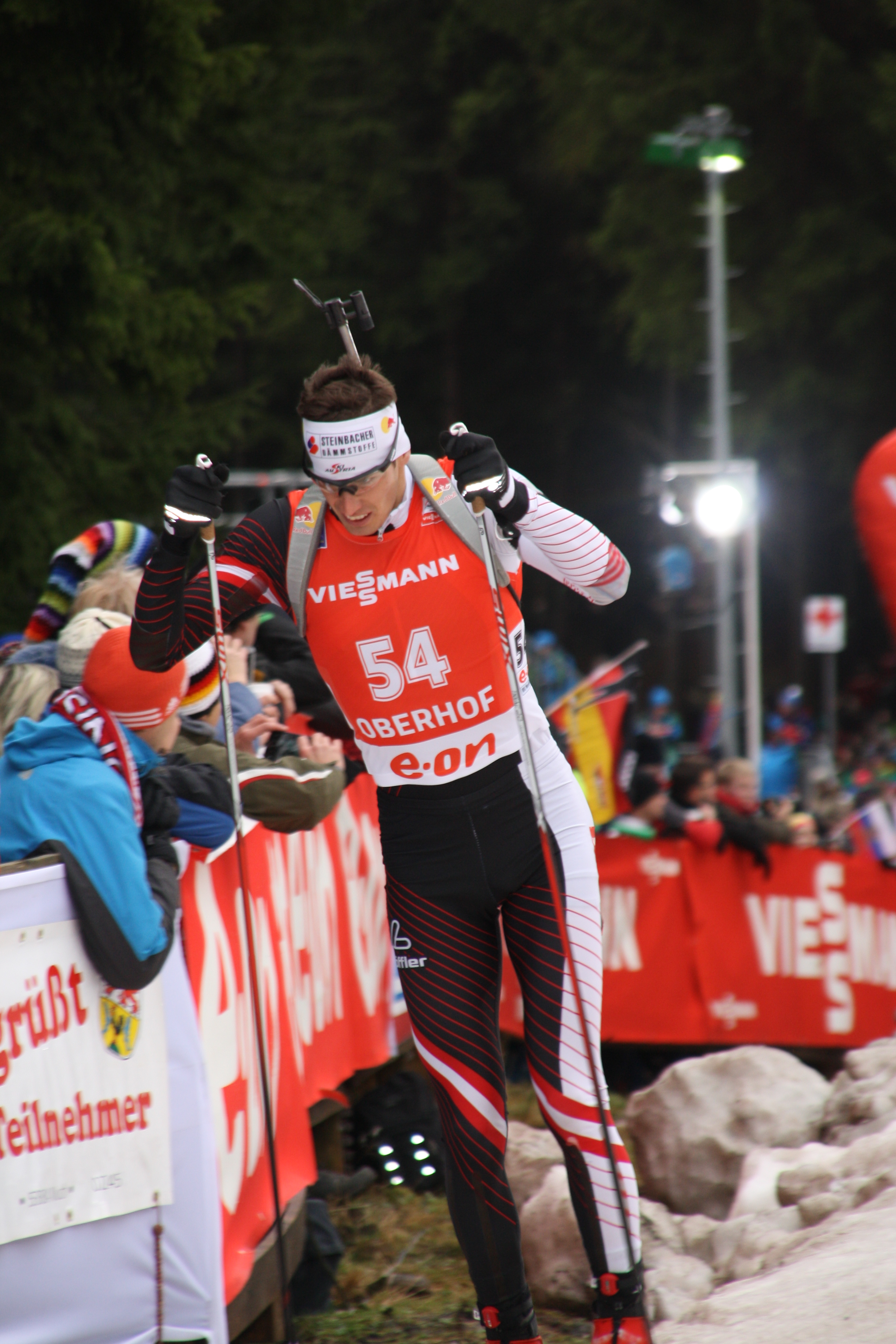 Biathlon World Cup Oberhof 2014 - Mens Pursuit